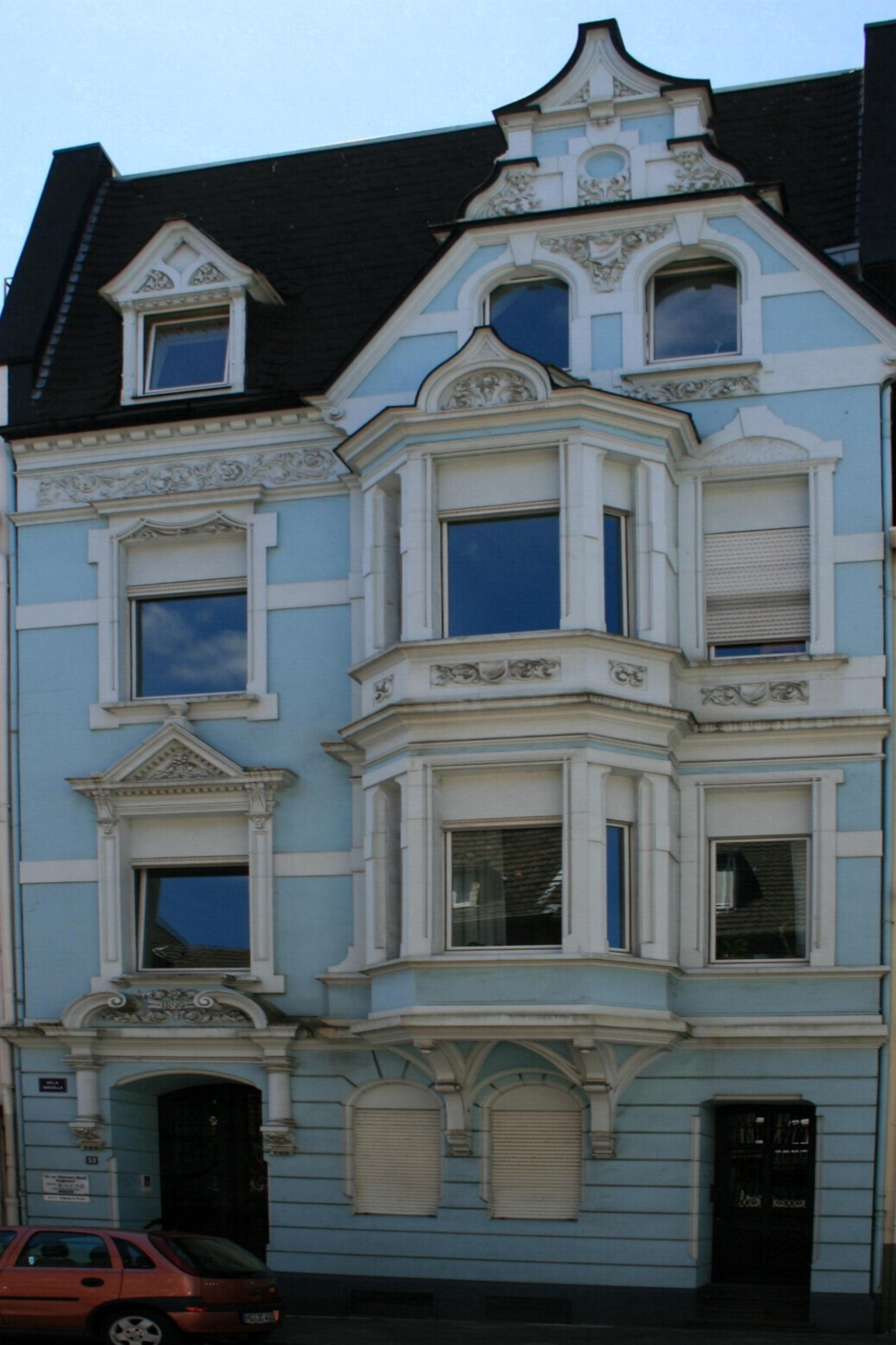 Cultural heritage monument No. Sch 039 in Mönchengladbach